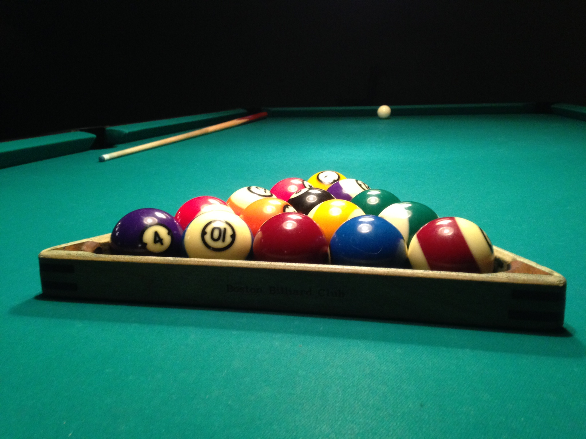 A racked set of billiards balls